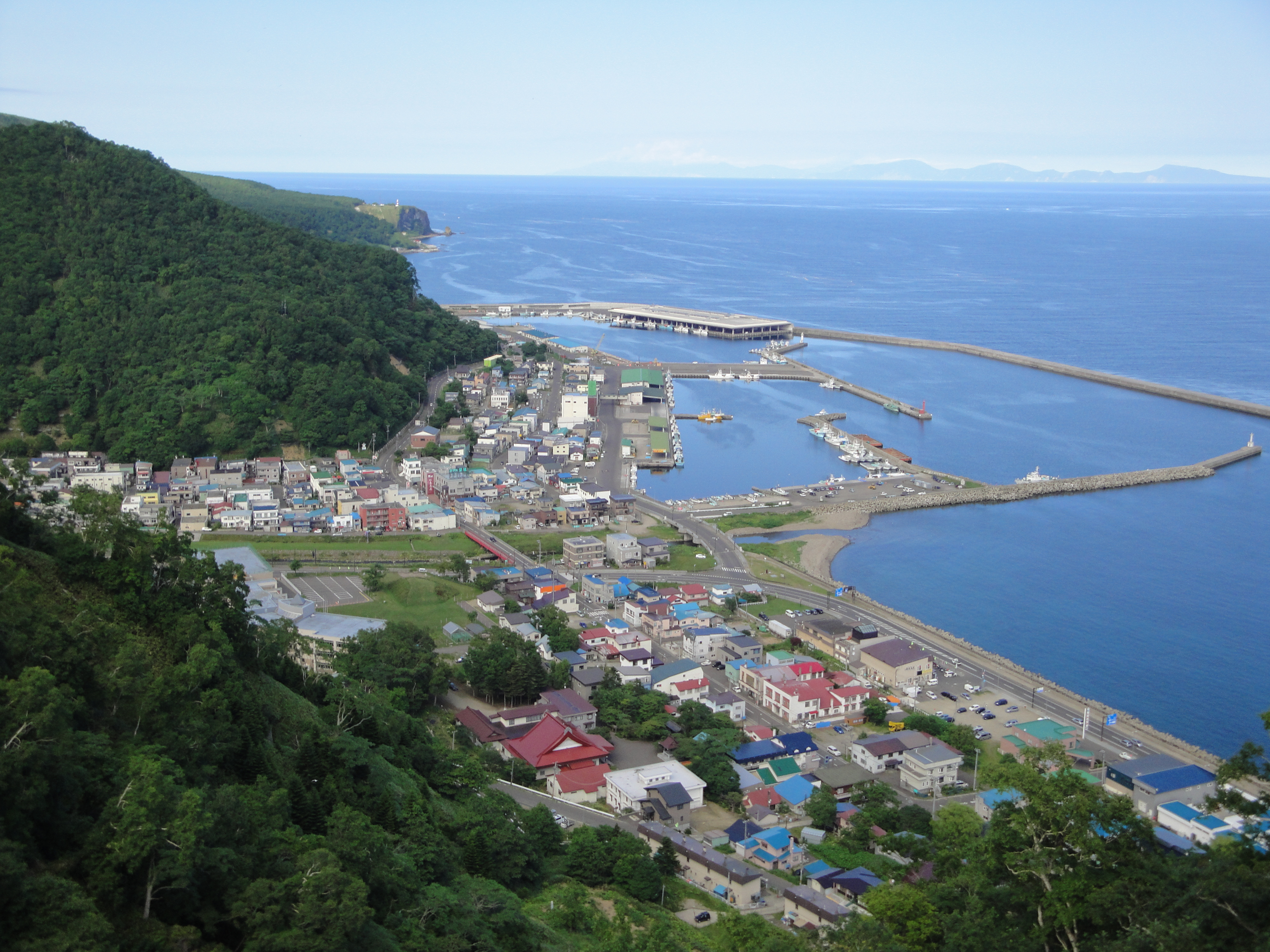 View in Rausu Kunashiri Observatory Deck.